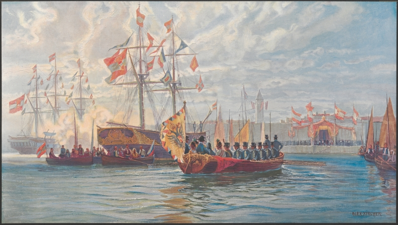 Plate No. 3 from the series 'Our war fleet 1556-1908' (Ljubljana, 1908), edited by Alfred von Koudelka after paintings by marine painter Alexander Kircher.The painting depicts the arrival of Emperor Franz I and Empress Karolina Augusta in Zara on 2 May, 1818 in the course of their journey through Dalmatia.